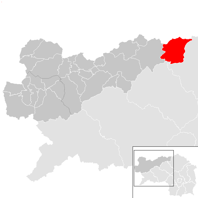 District Leoben